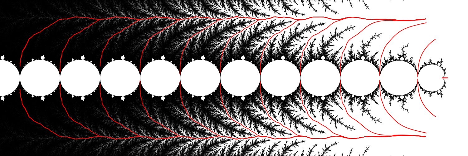 feigenbaum stretch and period doubling cascade. Part of the Mandelbrot set: 12 hyperbolic components period doubling cascade from period 2^0 = 1 to period 2^11 = 2 048